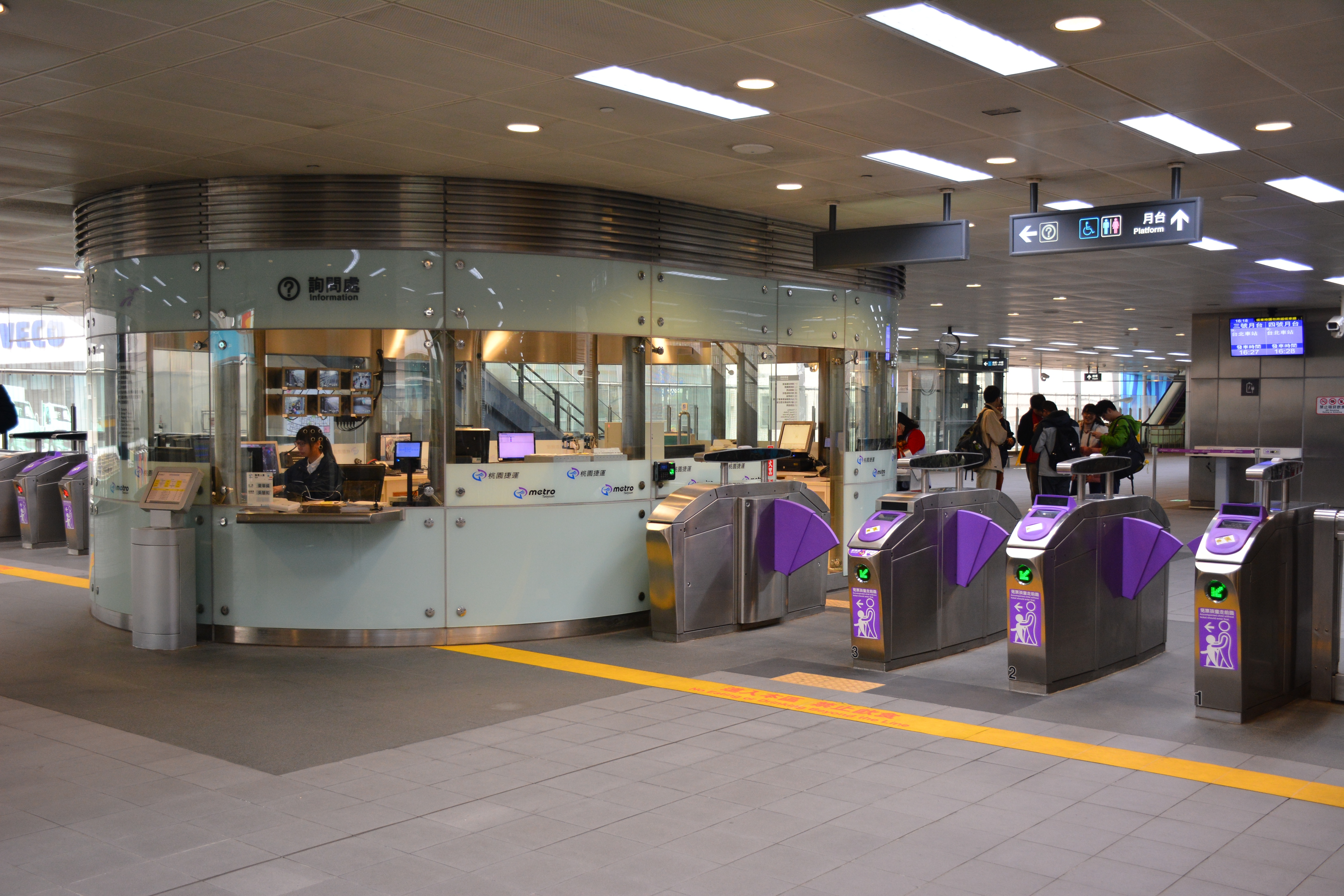 Chang Gung Memorial Hospital Station Ticket Gates